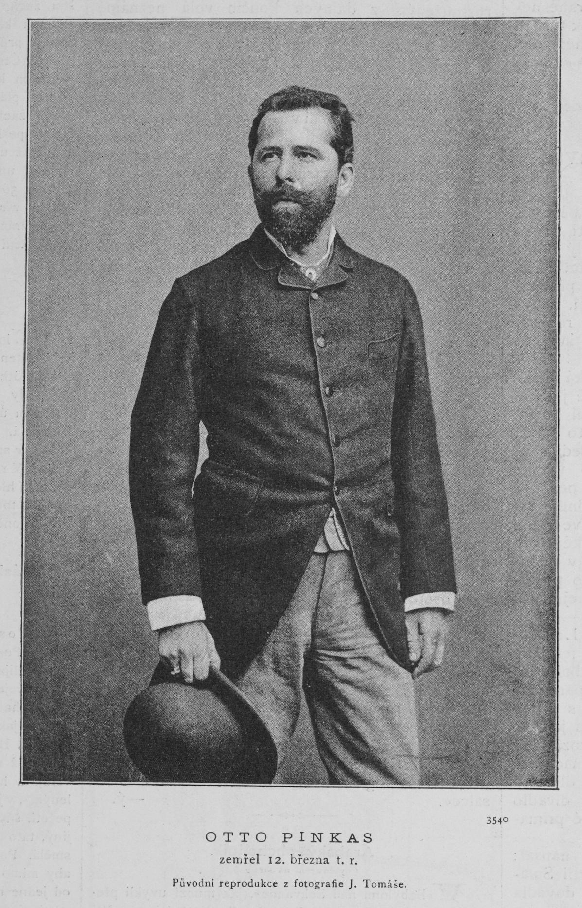 Portrait of Otto Pinkas (1849 - 1890), Czech writer and playwright.